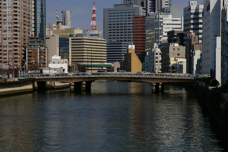 Jyouan-Bashi (bridge), Osaka City, Japan.